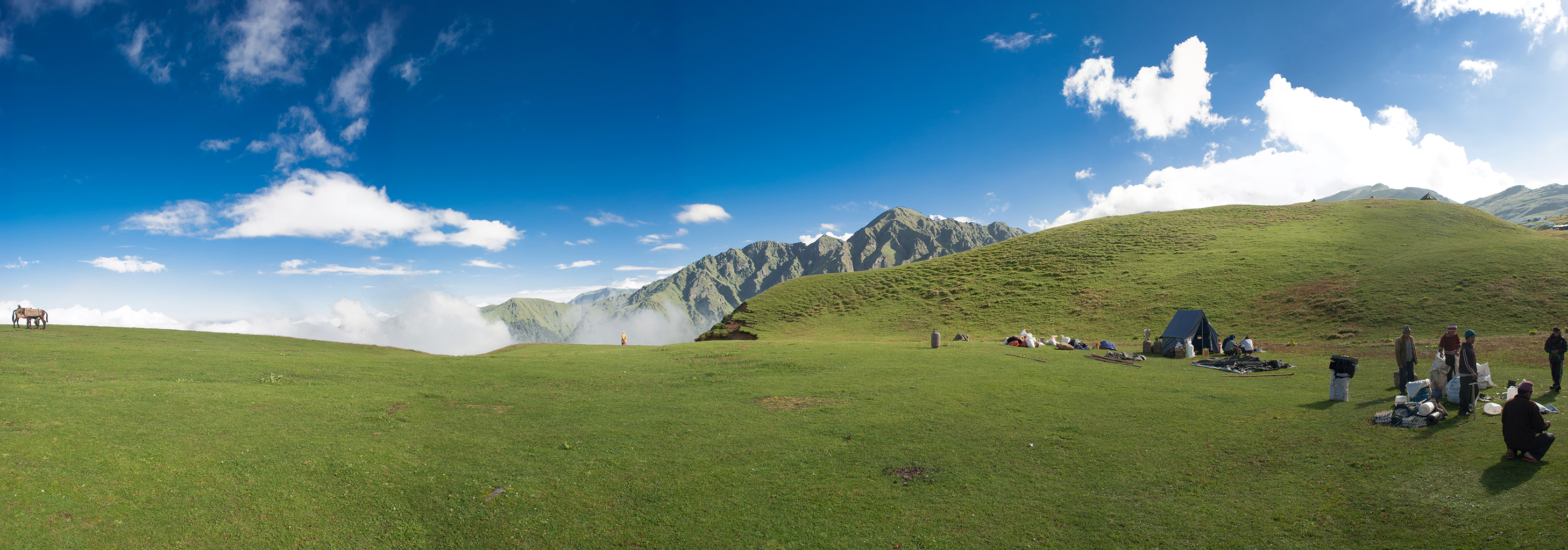 The panoramic view of Baidini Bugiyal